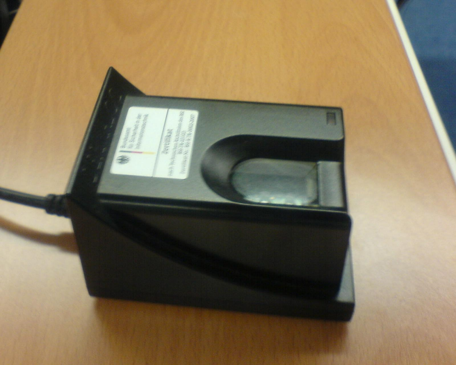 Fingerprint scanner for passport applicants (for German nationals) - This device is used nationwide.